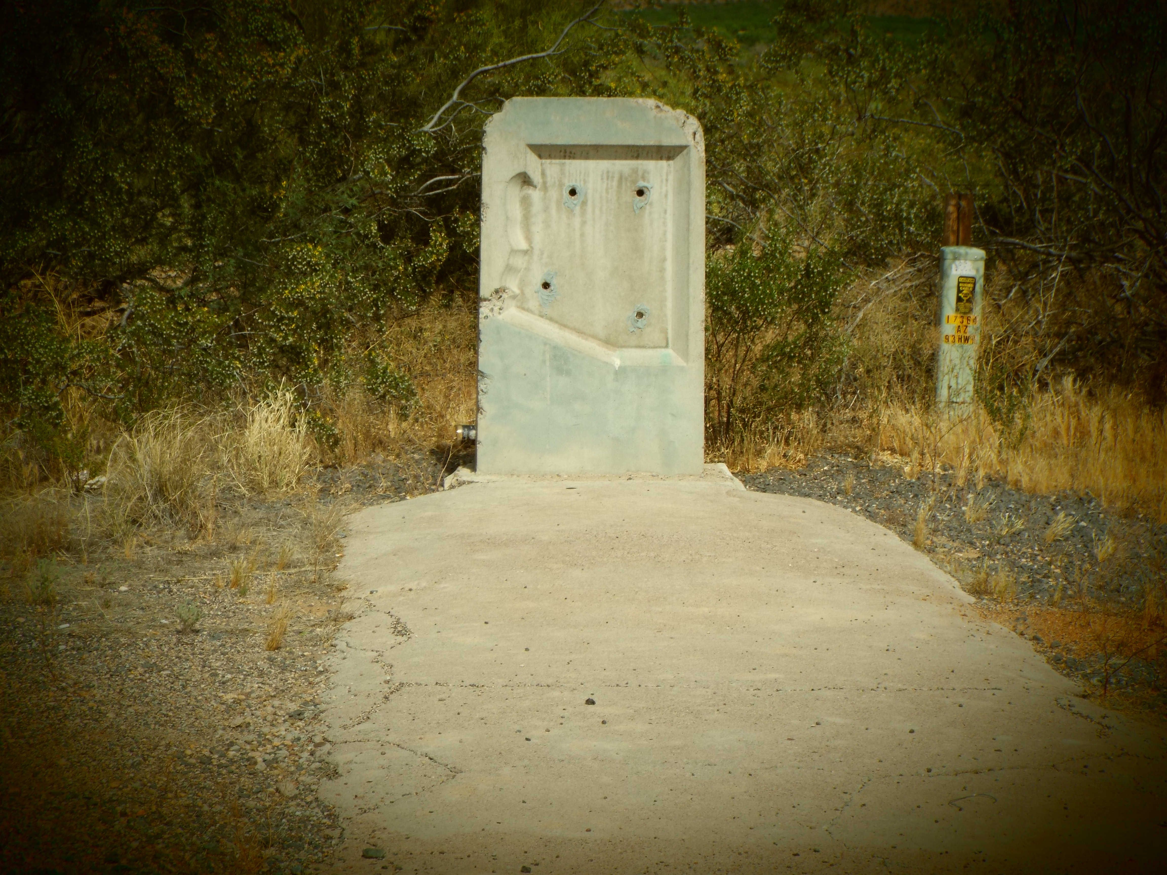 Vandalized historic marker in Wikieup, Az whose Inscription once read: First exploration probably by early Spanish explorers, Espejo in 1852 and Farfan in 1589. Explored later by Lt. Amiel W. Whipple in 1854. Important agriculture, mining, milling, and smelting area in our early days. The McCrackin Mine discovered by Jackson McCrackin and H. A. "Chloride Jack" Owen in 1874, lies 18 miles south. The Signal Mine was 12 miles south. Stamp mills were at Greenwood, 8 miles southwest and at Virginia City, 9 miles southwest. Cofer Hot Springs 3 miles east. 1966 by Arizona Highway Department.